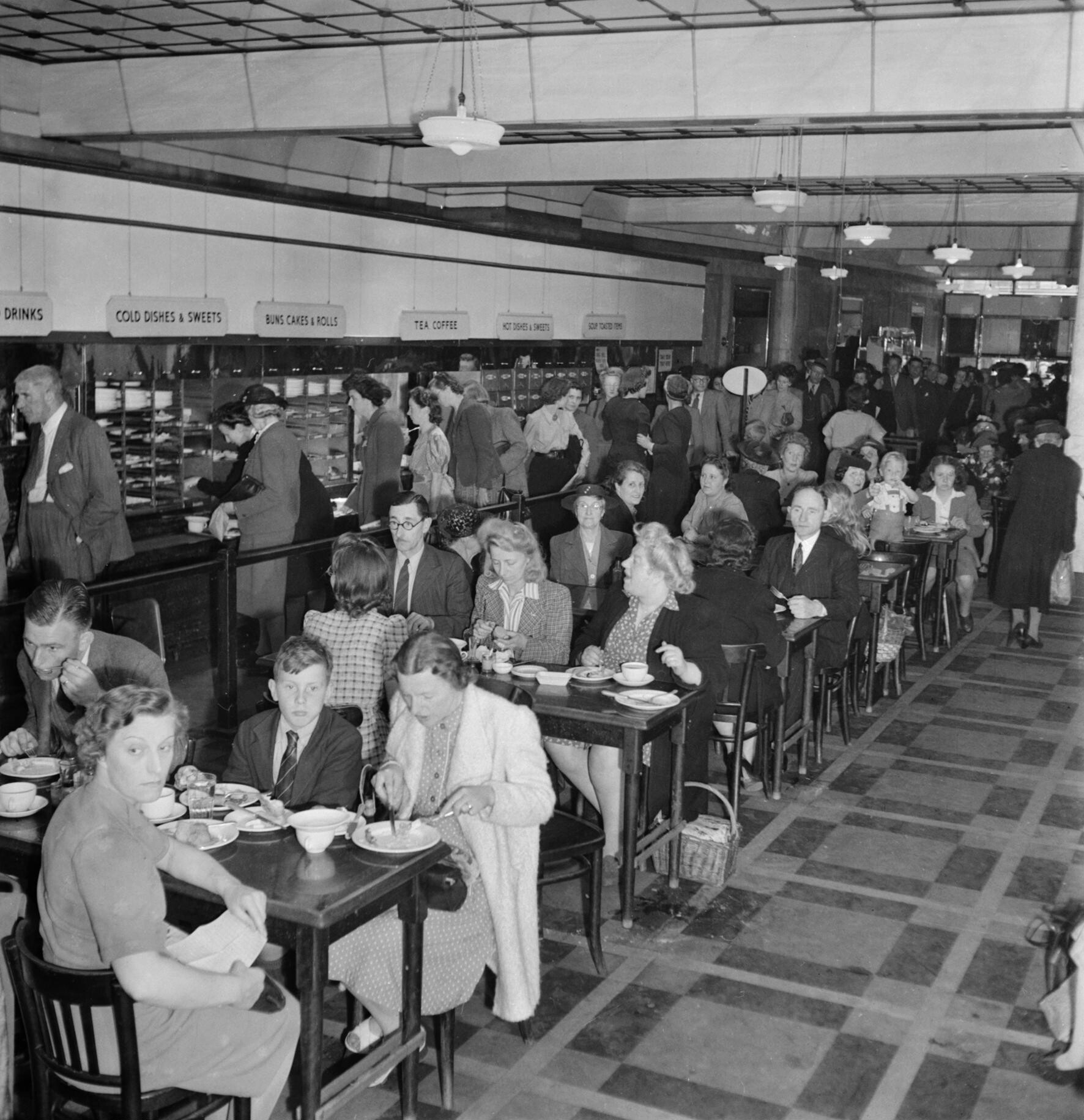 A Picture of a Southern Town- Life in Wartime Reading, Berkshire, England, UK, 1945 Men and women enjoy a spot of lunch at the self-service Lyon's Cafe in Reading. In the background, the self-service counter can be clearly seen. There are different sections for tea and coffee, hot dishes and sweets, cold dishes and sweets, and buns, cakes and rolls.